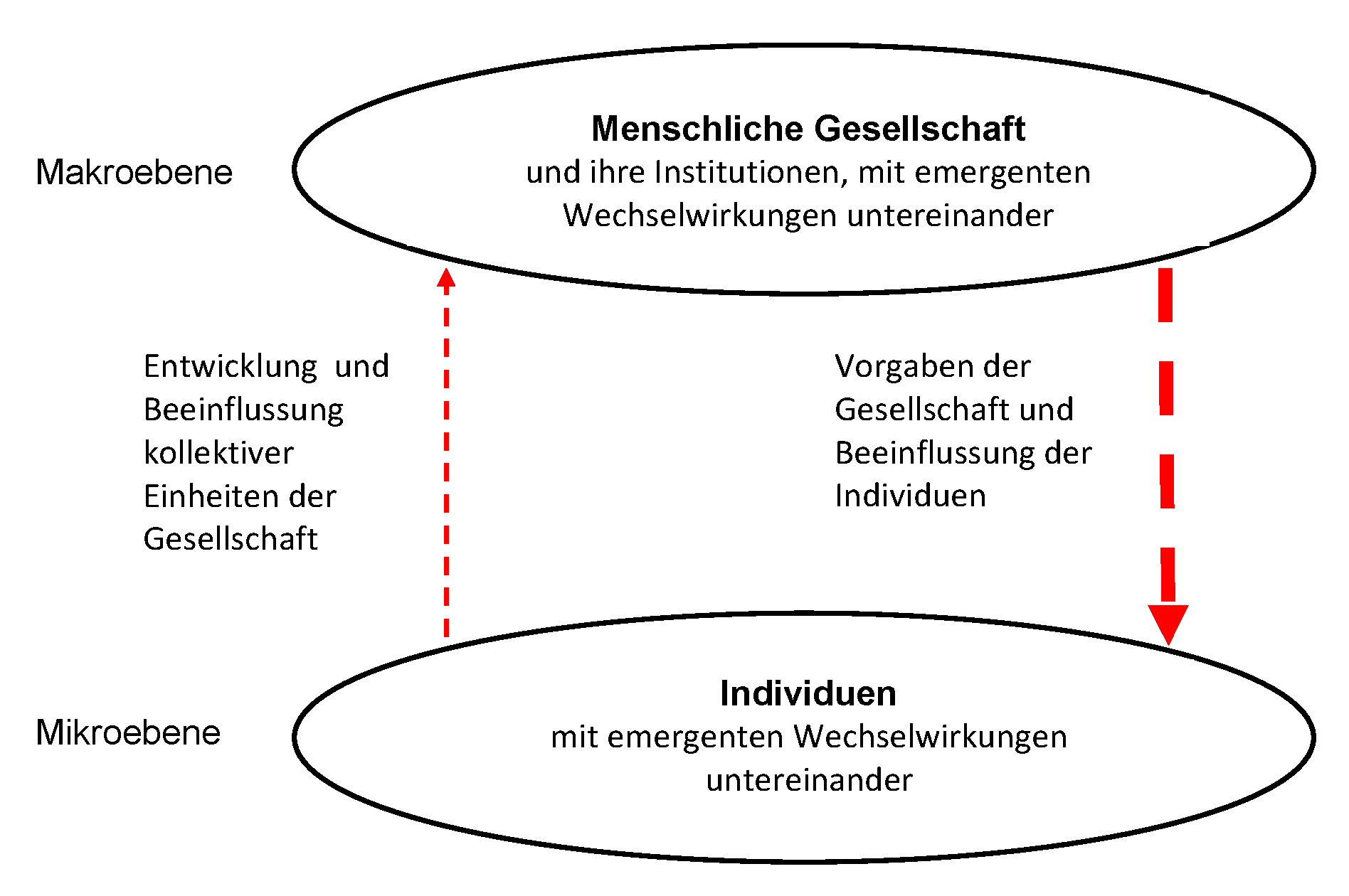 Top Level Architecture of the Society